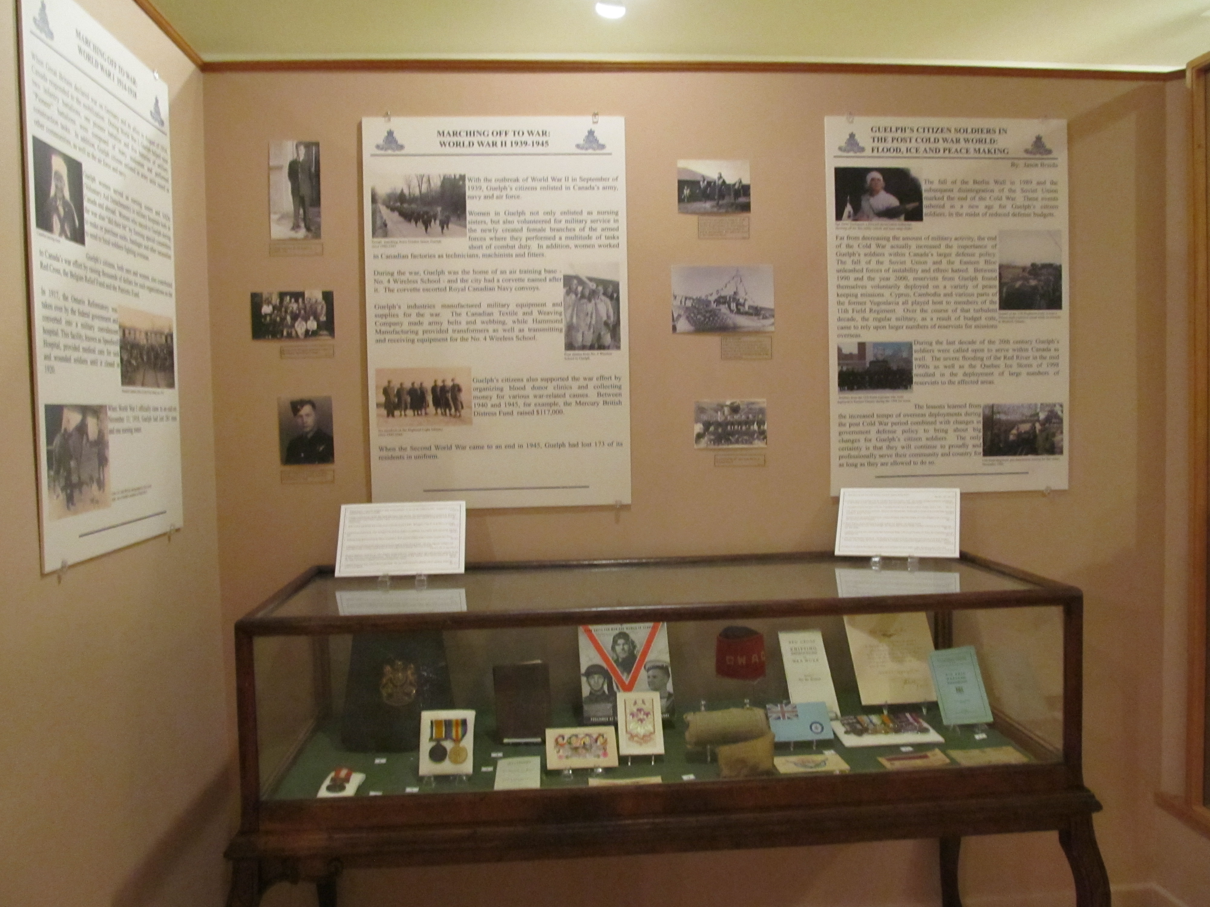 An example of an exhibit at the Guelph Civic Museum